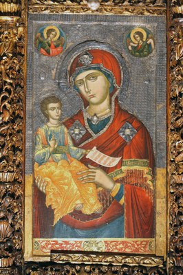 In Berat, Albania